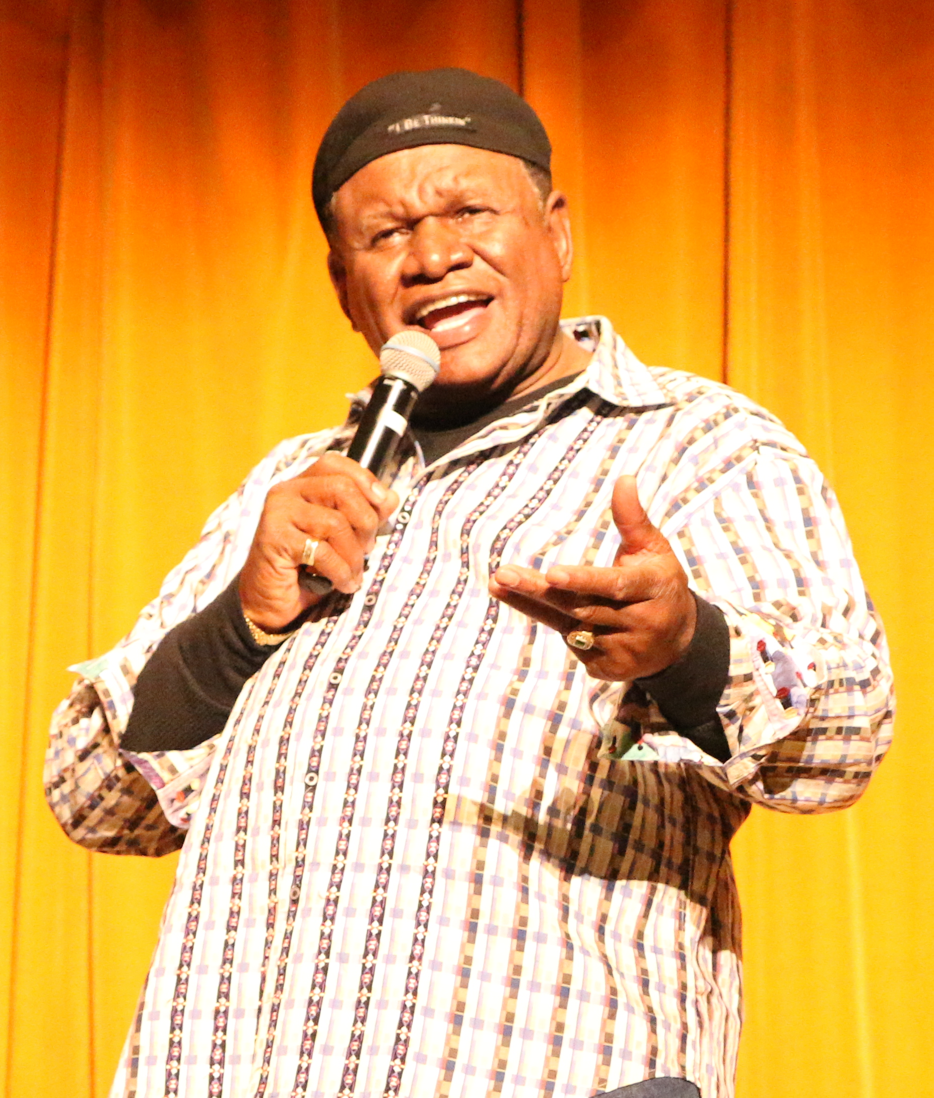 Comedian George Wallace performing at the U.S. Army Garrison Humphreys, South Korea - 28 January 2014